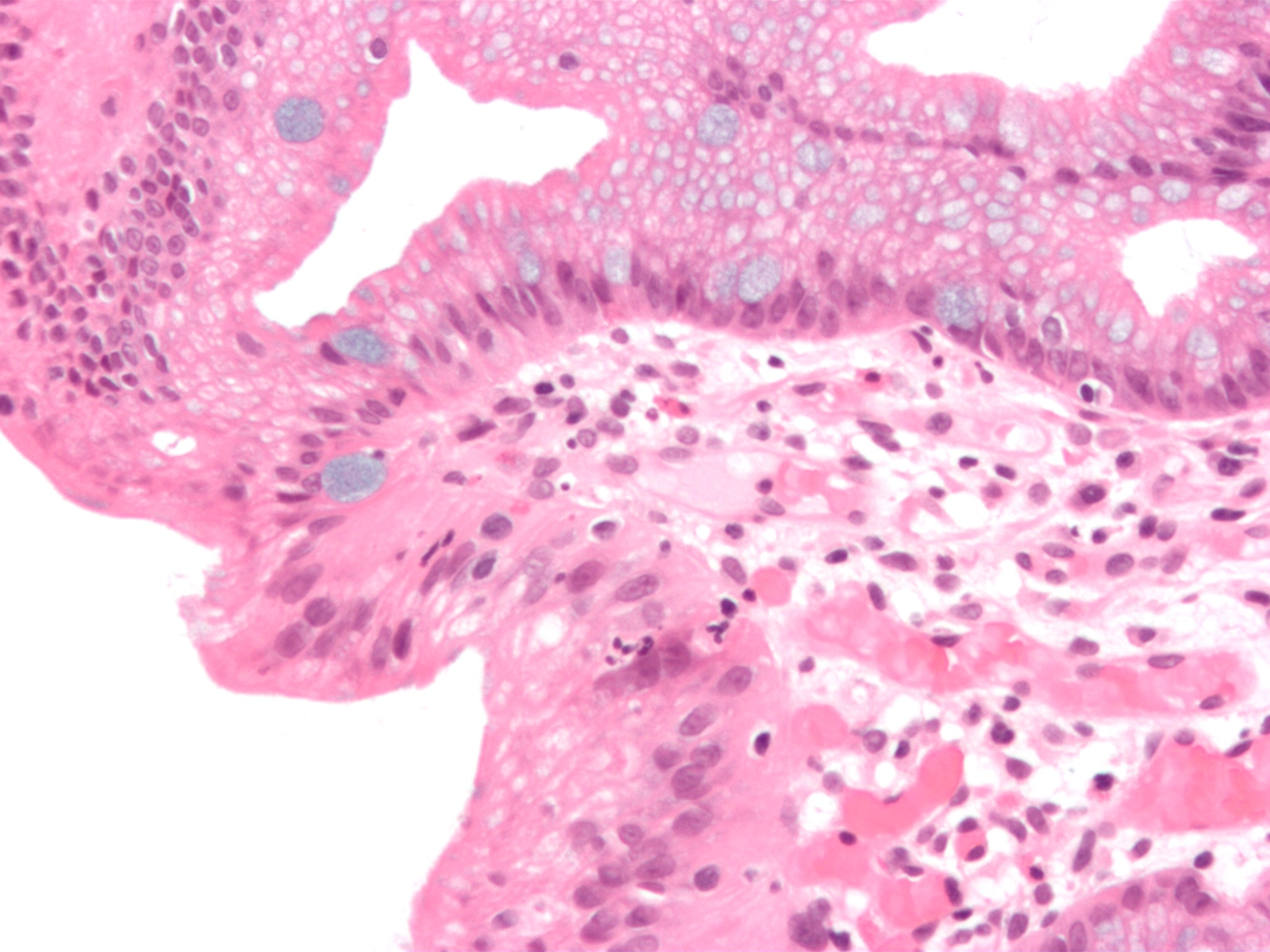 Micrograph of Barrett's esophagus (high magnification). Alican blue stain. The (simple columnar) metaplasic epithelium of Barrett's esophagus is characterized by goblet cells, which stain blue with alcian blue. Barrett's is associated with an increased risk of adenocarcinoma.